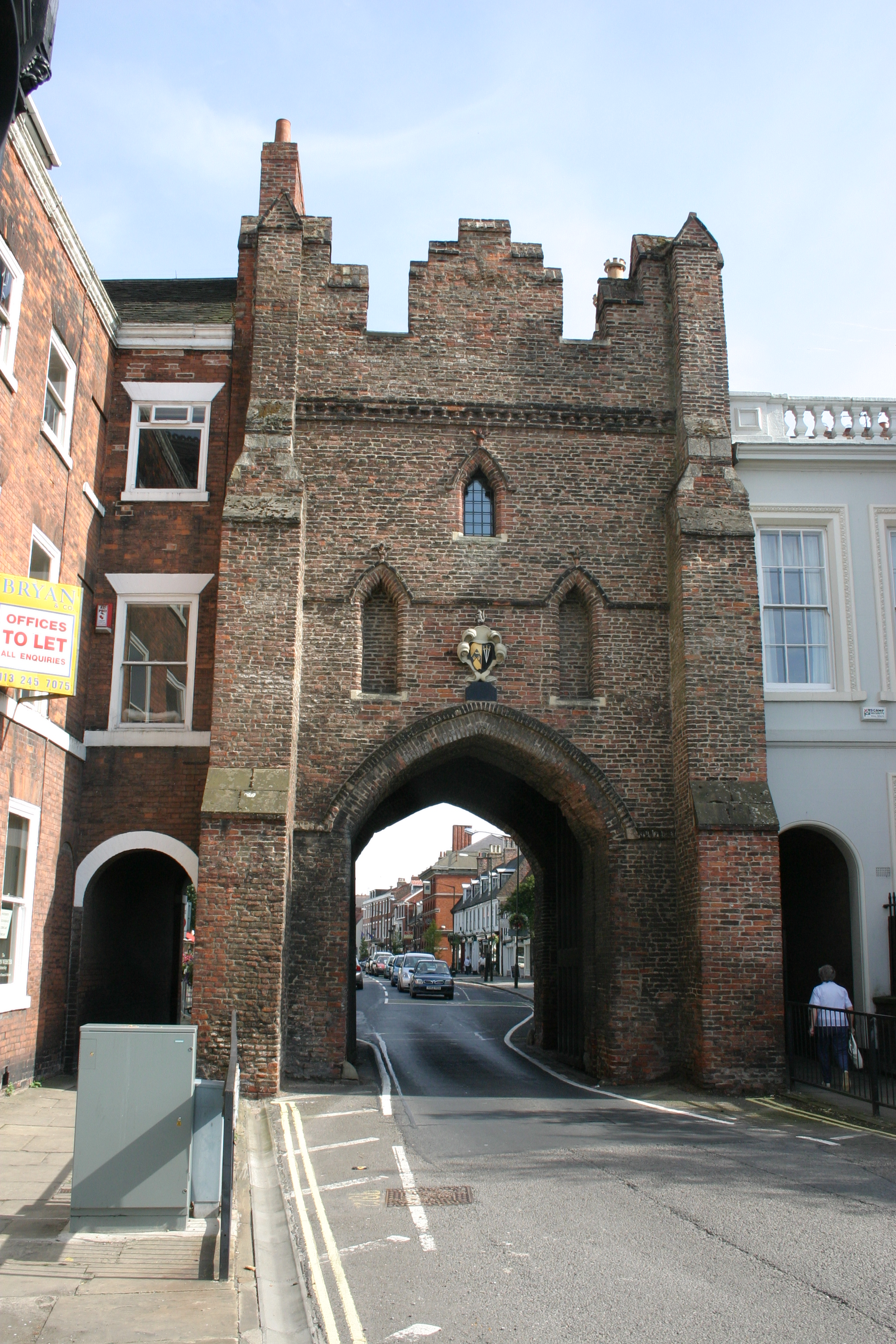 North Bar, Beverley, East Riding of Yorkshire, England. Taken with Canon 300D. Image rotated - 6 February 2008